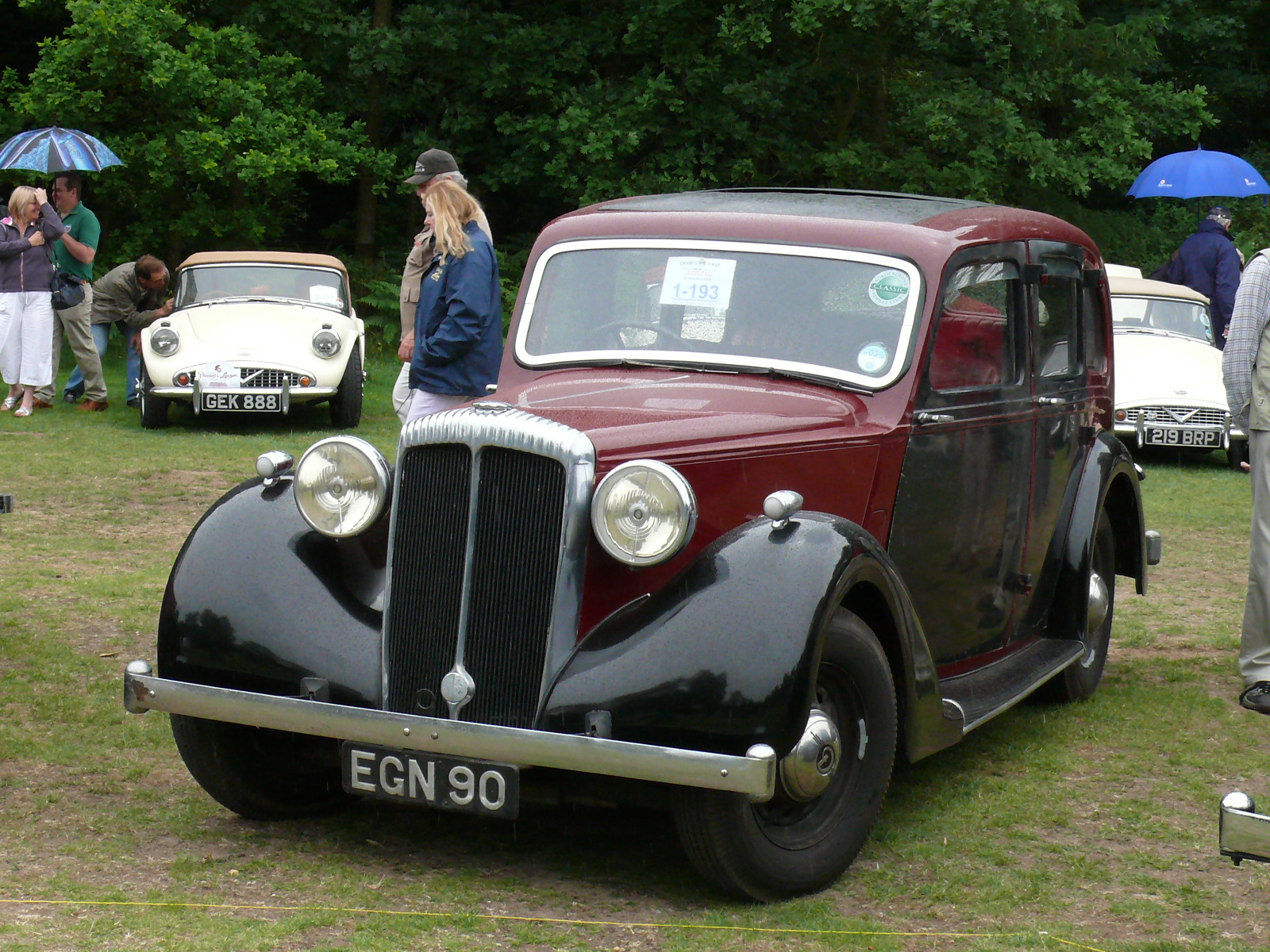 Daimler New Fifteen saloon 6-light October 1937 DB17.1 [EGN 90] Daimler & Lanchester Owners Club, International Rally, Queen's Birthday weekend, Sandringham, Norfolk Sunday 12 June 2011 (DVLA) 2192cc, reg 14 October 1937